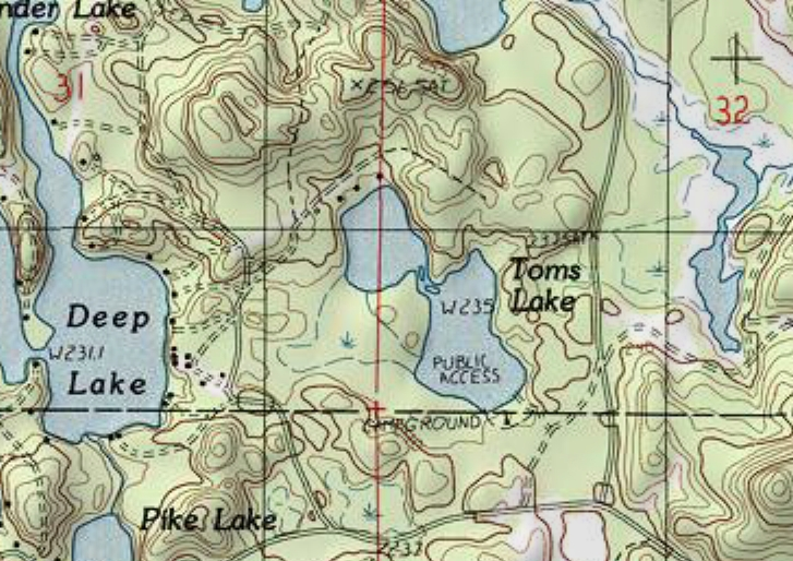 Topo map of Toms Lake, Schoolcraft County, Michigan USA